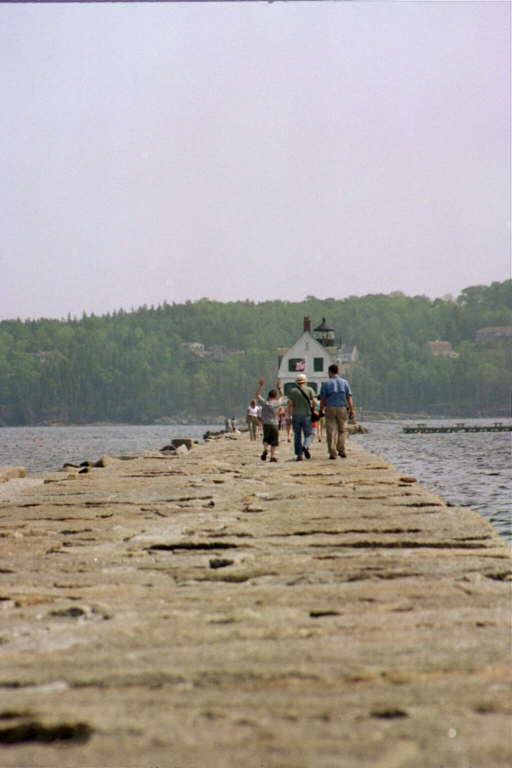 Rockland's Breakwater Light, from the base of the breakwater.